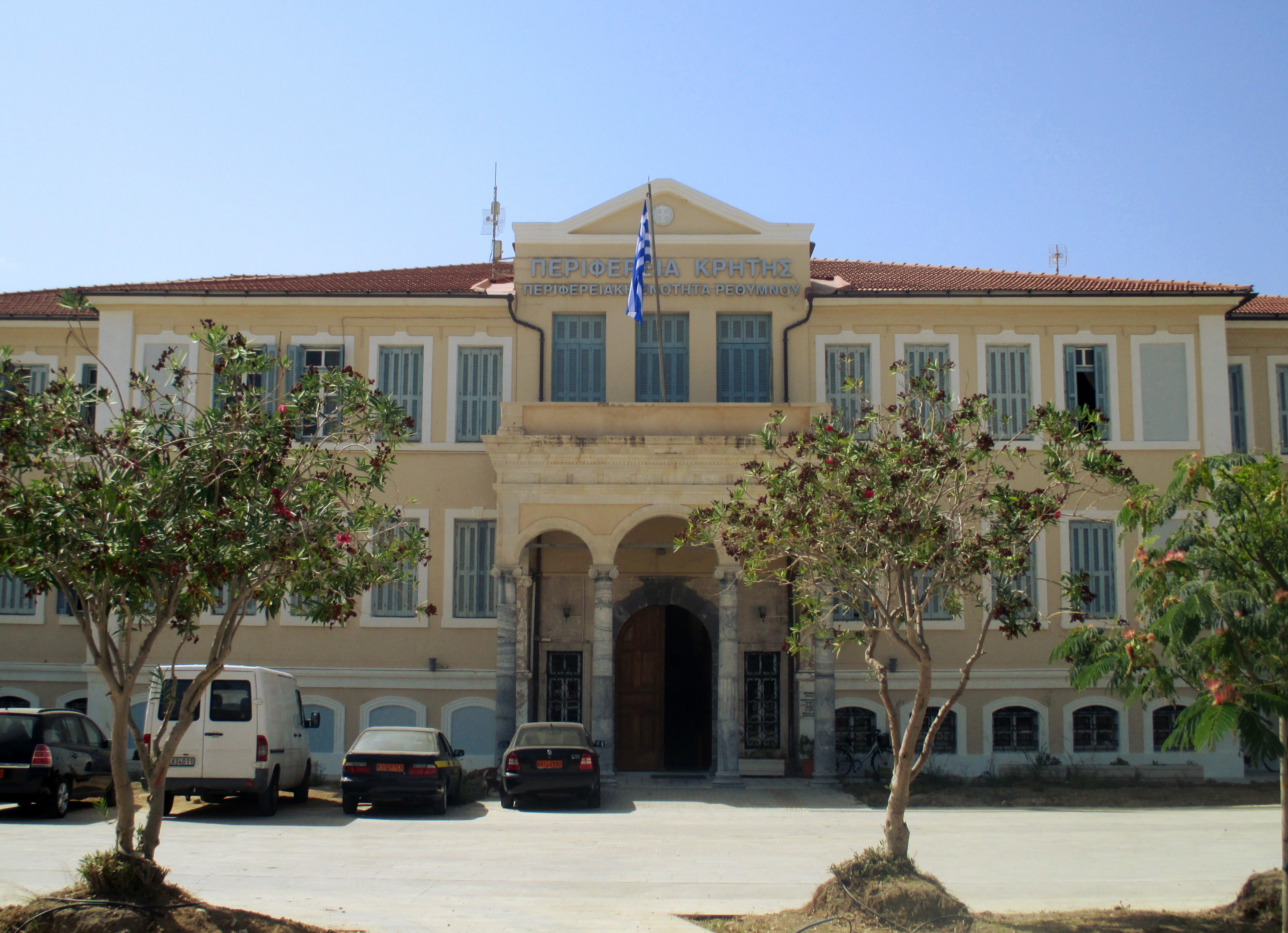 Government Building of the Regional Unit of Rethymno (old Prefecture of Rethymno), Rethymno, Crete, Greece.